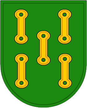 Coat of arms of the Traba family (according to Memorial de la Casa de Saavedra)